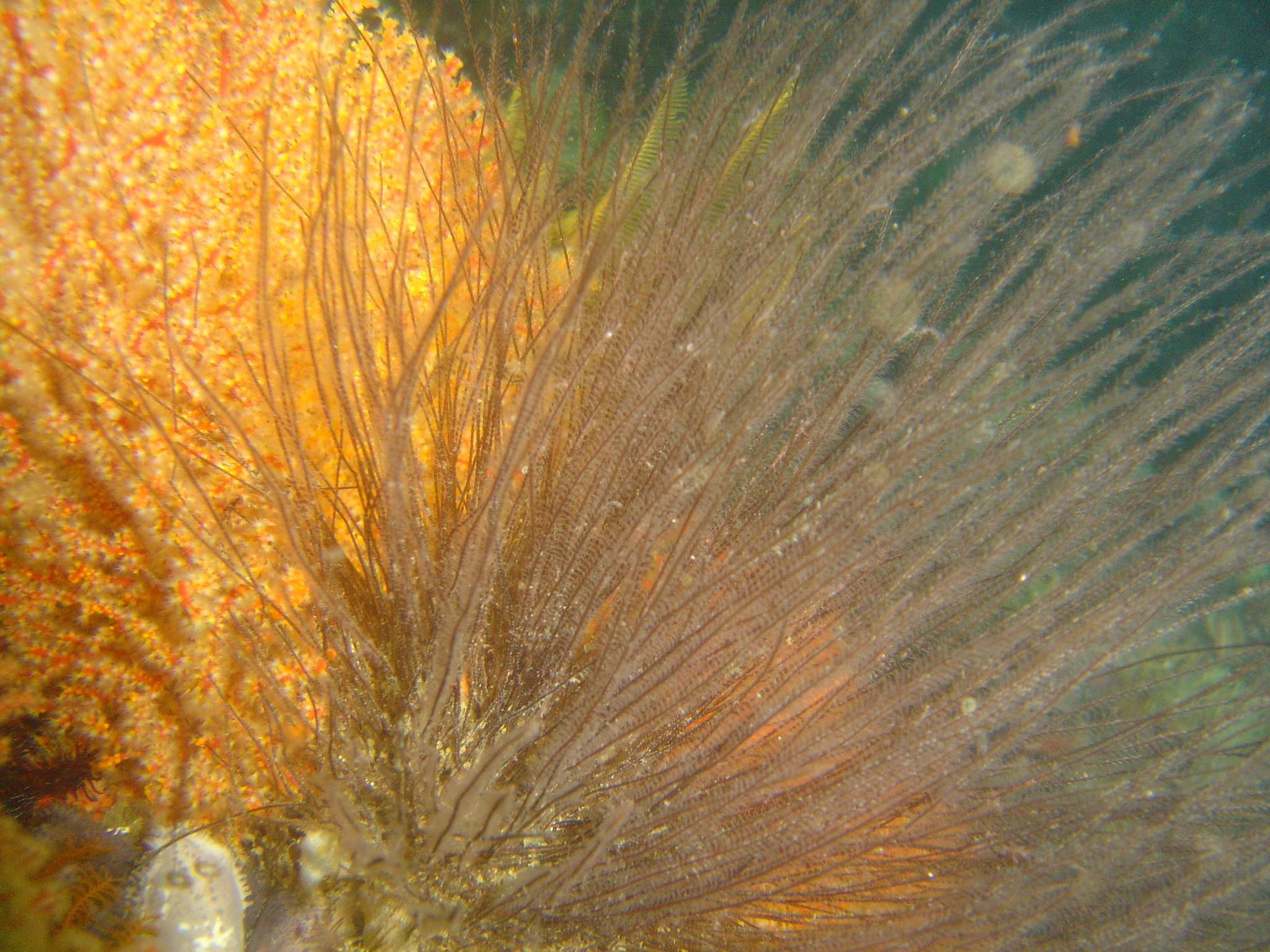 Simon's Town, Cape Peninsula.